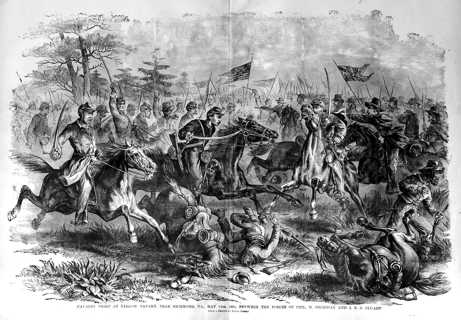 The Battle of Yellow Tavern (by Edwin Forbes)